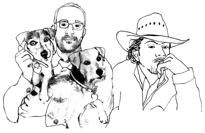 F. Bowman Haste and Ricardo Cortes as drawn by Cortes.